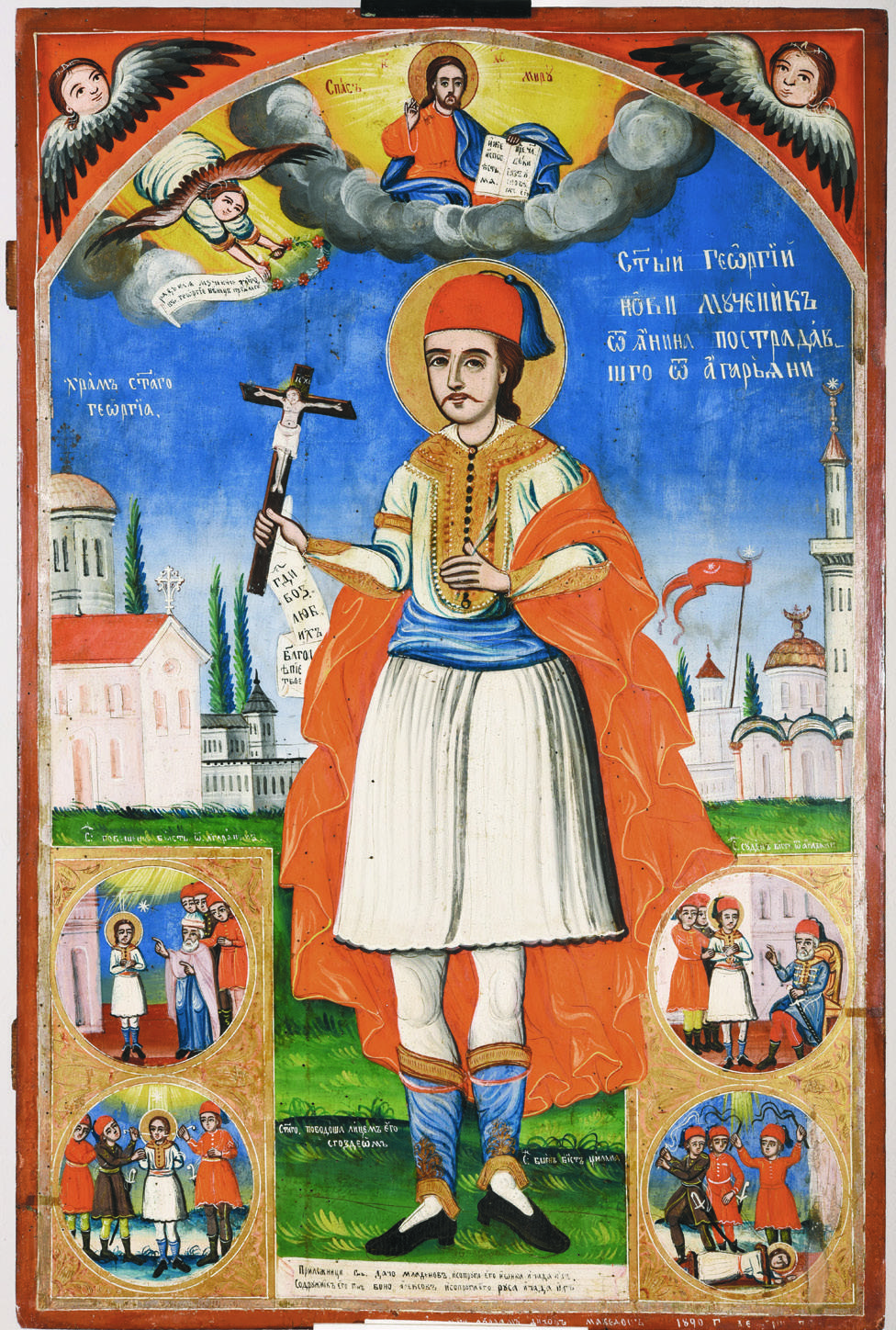 Saint George of Ioannina Icon by Avram Dichov, 1890, Lom